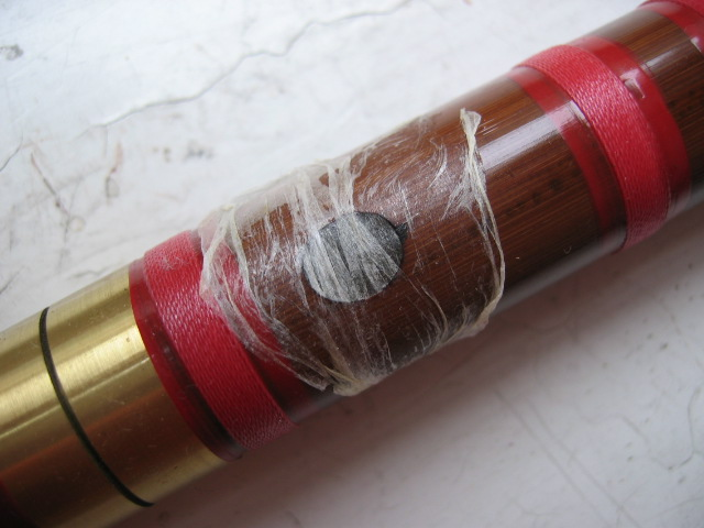 own photo, 2006 "di" (笛, Pinyin: dí), aka "dizi" (笛子, Pinyin: dízi), aka "Chinese bamboo flute" (中国竹笛, Pinyin: zhōng guó zhú dí), aka "Chinese membrane flute" (中国膜笛, Pinyin: zhōng guó mó dí); close-up of membrane hole, with membrane of onion skin (the poor European's substitute)Bamboo in use